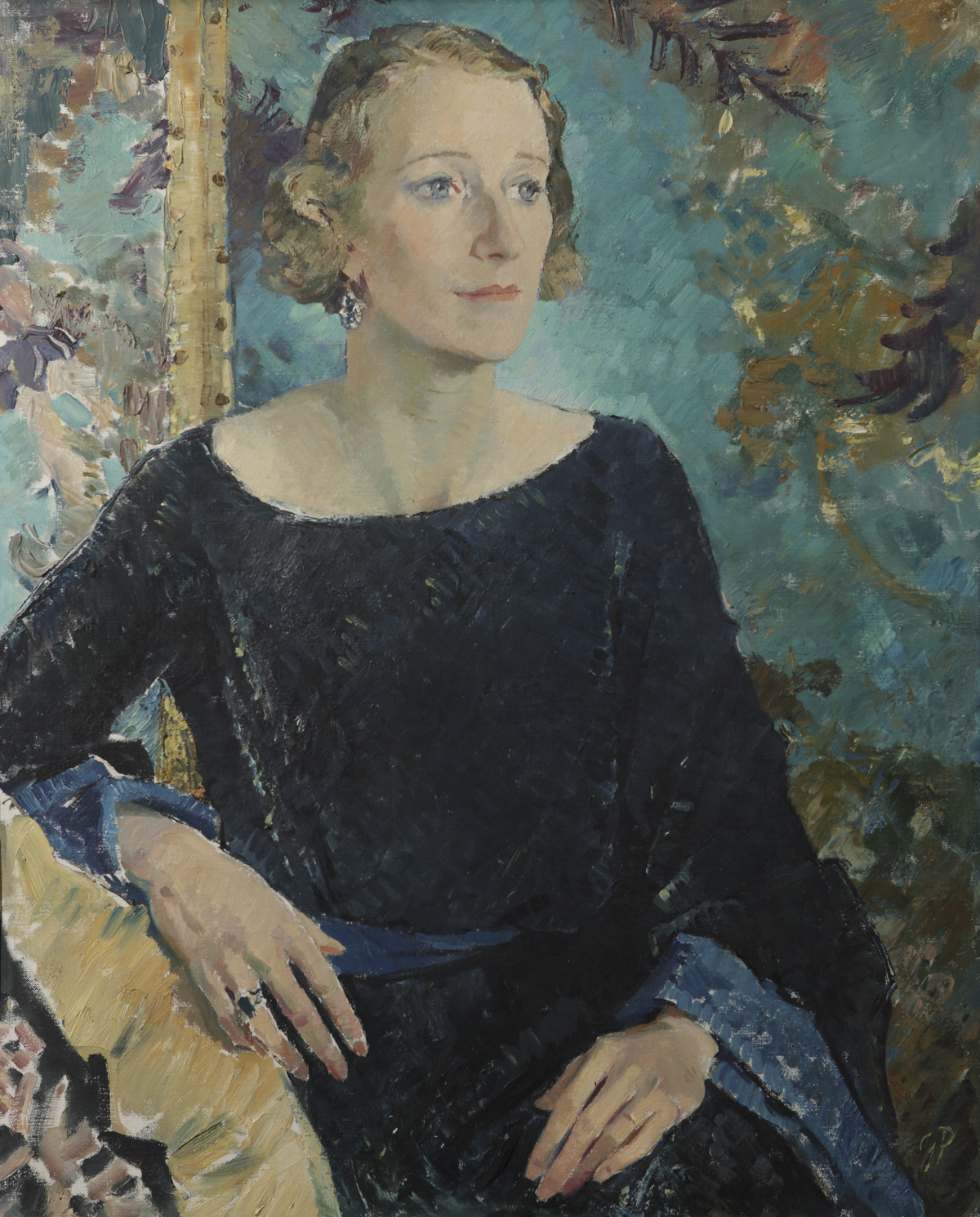 Philpot, Glyn Warren; The Honourable Ruth Cable (c.1898-1949), Lady Benthall; National Trust, Benthall Hall